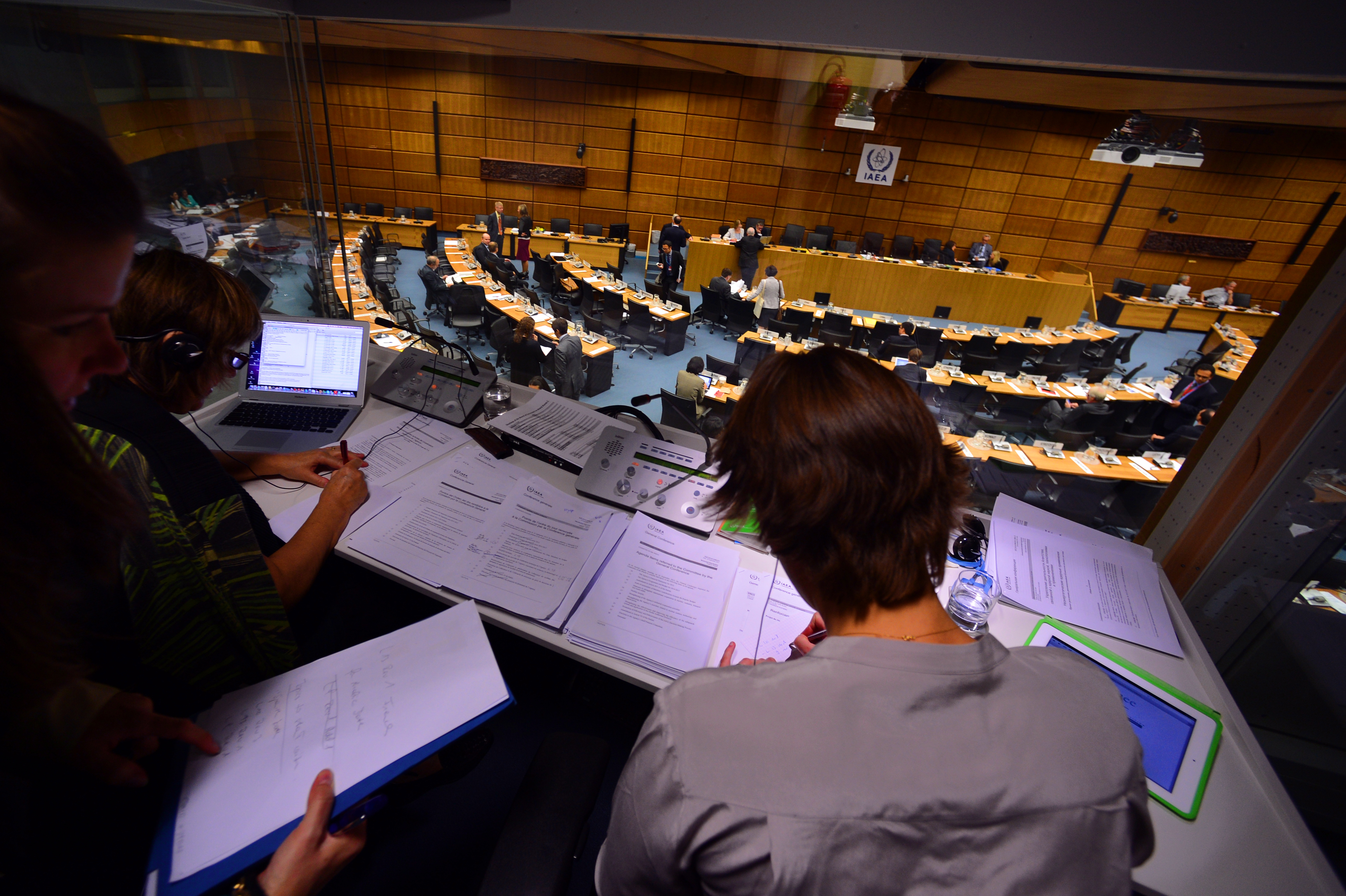 Behind the Scenes at the last day of the 57th IAEA General Conference. M-Building, IAEA Headquarters, Vienna, Austria. 20 September 2013. Photo Credit: Dean Calma / IAEA